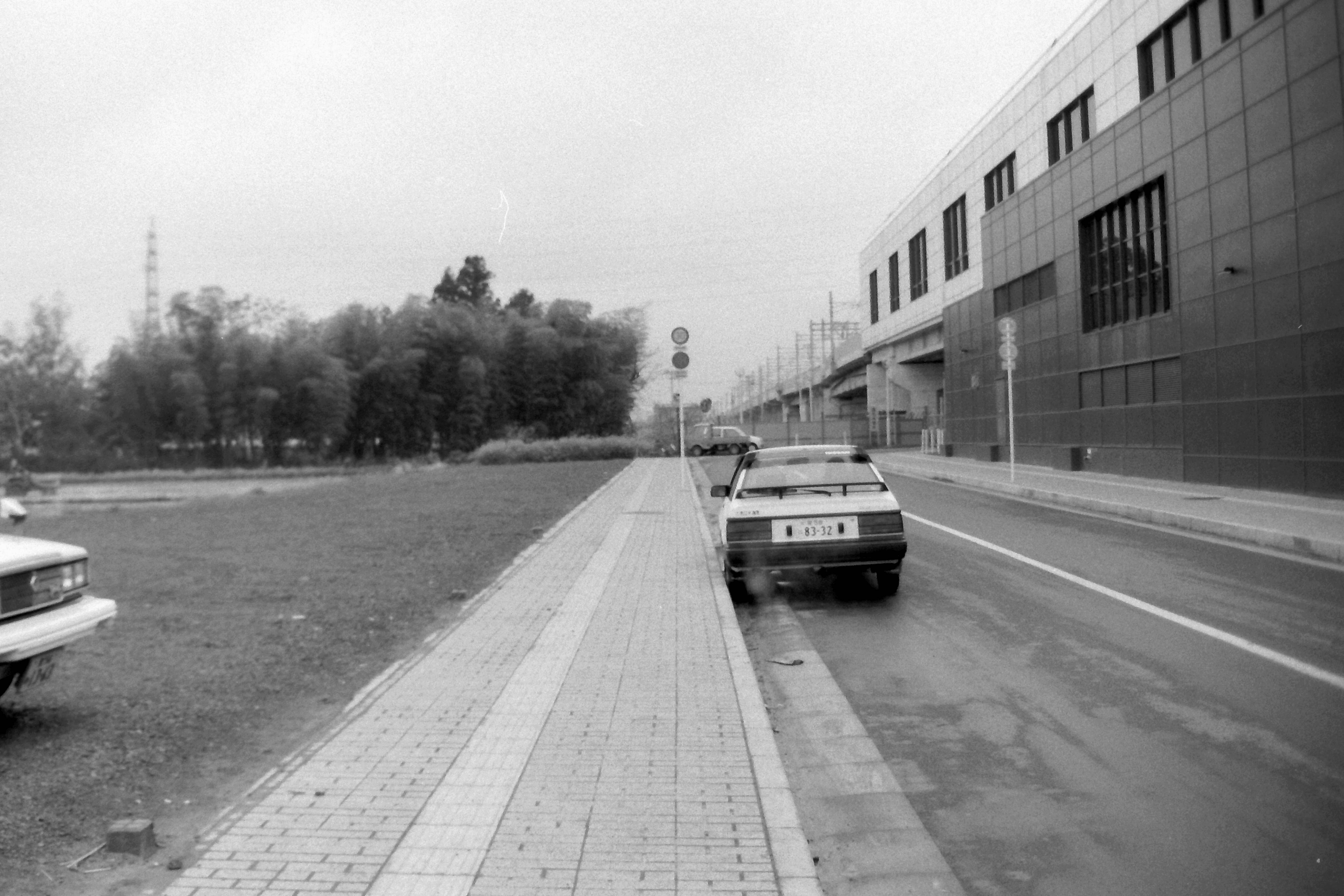 In this May, 1989, photograph taken from the east side of Tomizawa station, the elevated siding to the Tomizawa rail yard is seen. The construction of the transport hub and land readjustment project around the station were started in the fiscal 1994, and accomplished in 2014.